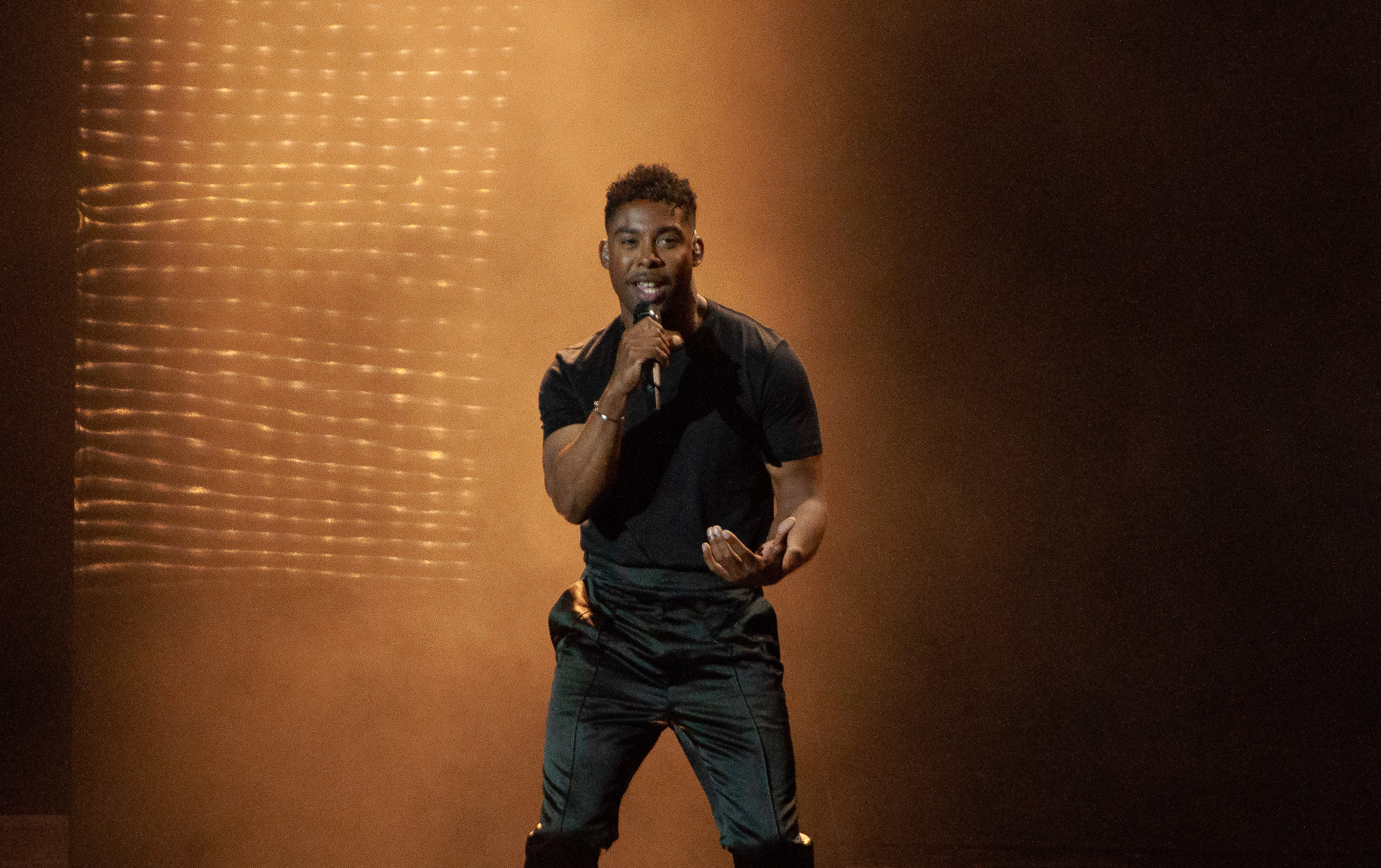 John Lundvik representing Sweden with the song "Too Late for Love" during a rehearsal before the second semi-final of the Eurovision Song Contest 2019 in Tel-Aviv.